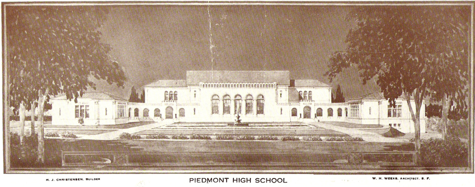 Piedmont High School after its complete in the early 1920s. The school was designed by W.H. Weeks and built by H.J. Christensen. This photograph was taken from Magnolia Avenue. It was printed in a 1922 report by the Piedmont Unified School District. This looks like a painting or drawing to me... (LisaBC)